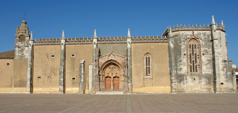 Jesus Convent in Setúbal, Portugal. Photographer: Osvaldo Gago